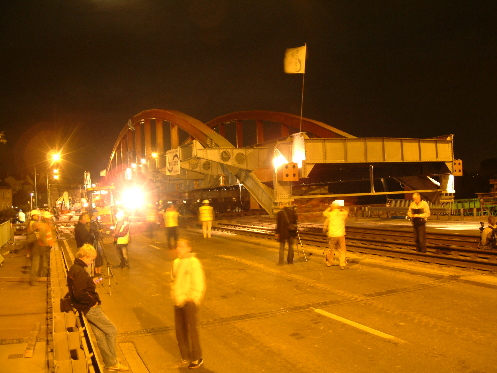 Moving old St. Roch Bridge over Mieszko I Bridge in Poznań